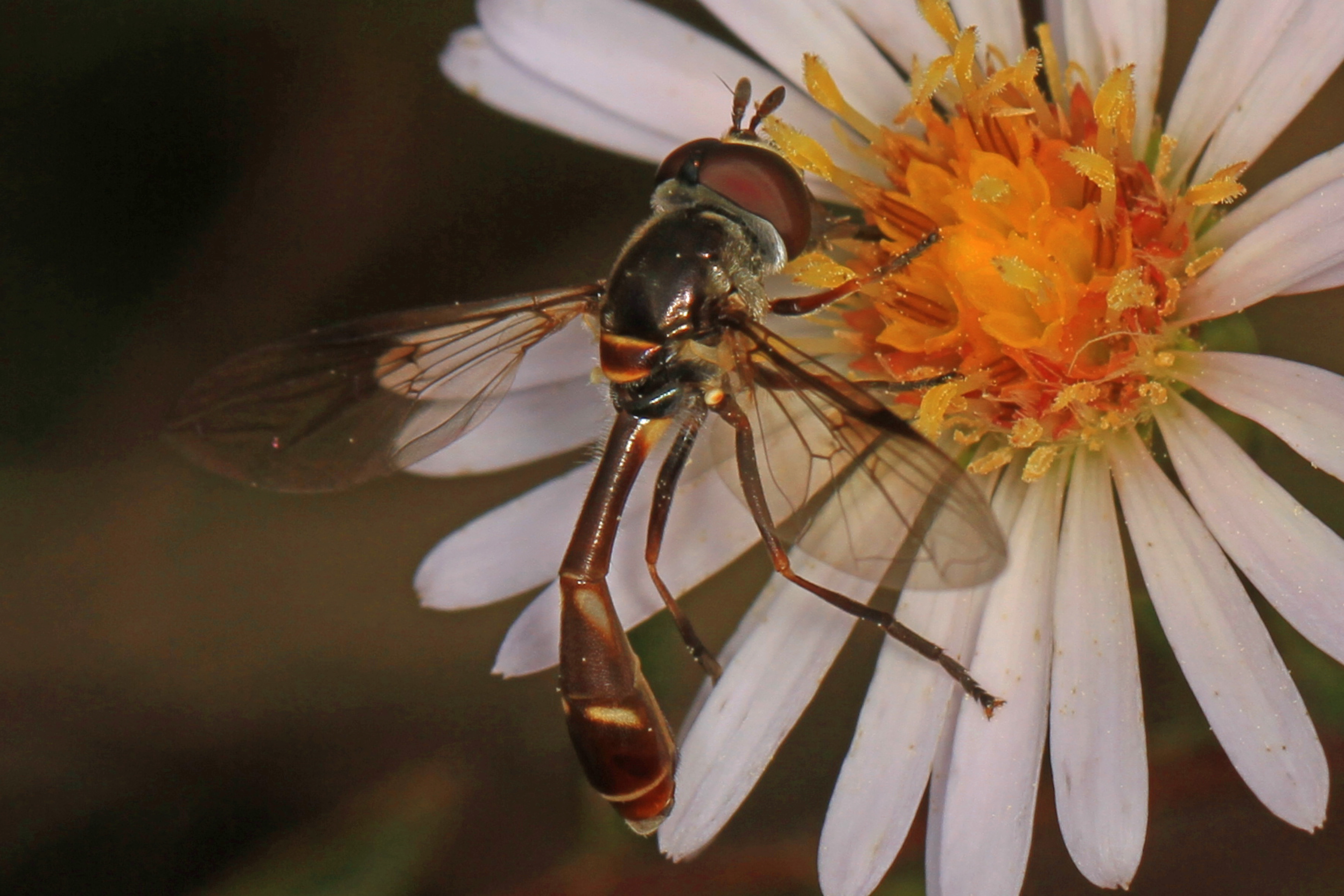 Syrphid - Dioprosopa clavata, Okaloacoochee Slough State Forest, Felda, Florida.